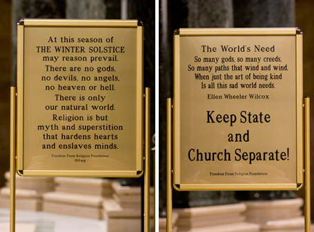 Front and back of the atheist sign at the Wisconsin State Capitol. Released with a GNU license by the Freedom From Religion Foundation to represent the sign in promotion.